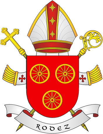 Coat of Arms od diocese of Rodez in France.